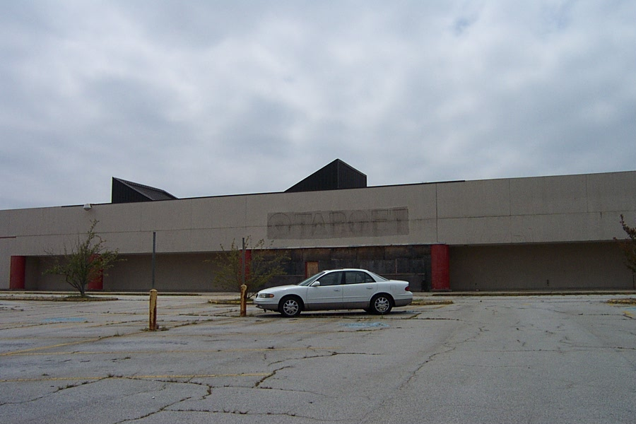 An old Target store located on Old National Highway in College Park, Georgia. It was originally converted from a Richway back in 1989. It was closed down in 1995 and its successor store is Target #0778 located in Fayetteville, Georgia.